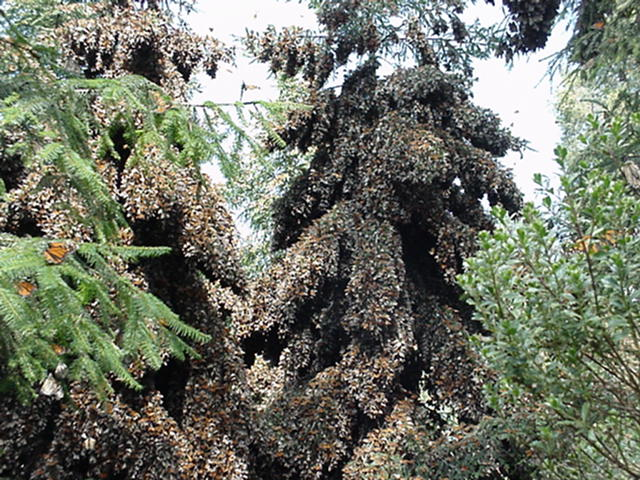 author's photograph of some of the overwintering monarch butterflies in a preserve outside of Angangueo. One tree is completely covered in butterflies.